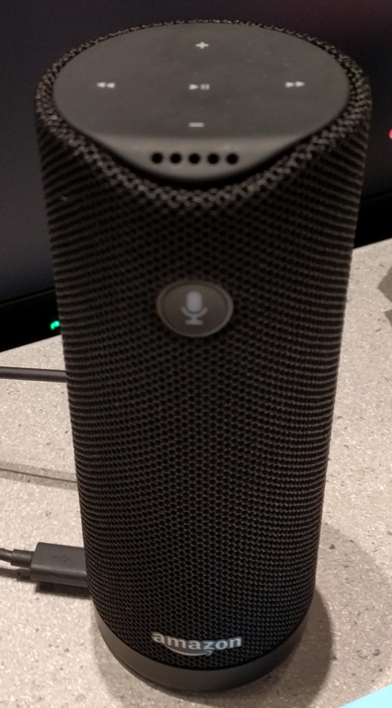 The Amazon Tap smart speaker on display at an Amazon Books location